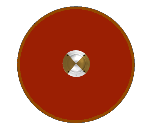 Shield pettern o.t. Superventores iuniores, listed as the 14th of the 18 pseudocomitatenses units in the Magister Peditum's infantry roster; Notitia Dignitatum, 5th century.